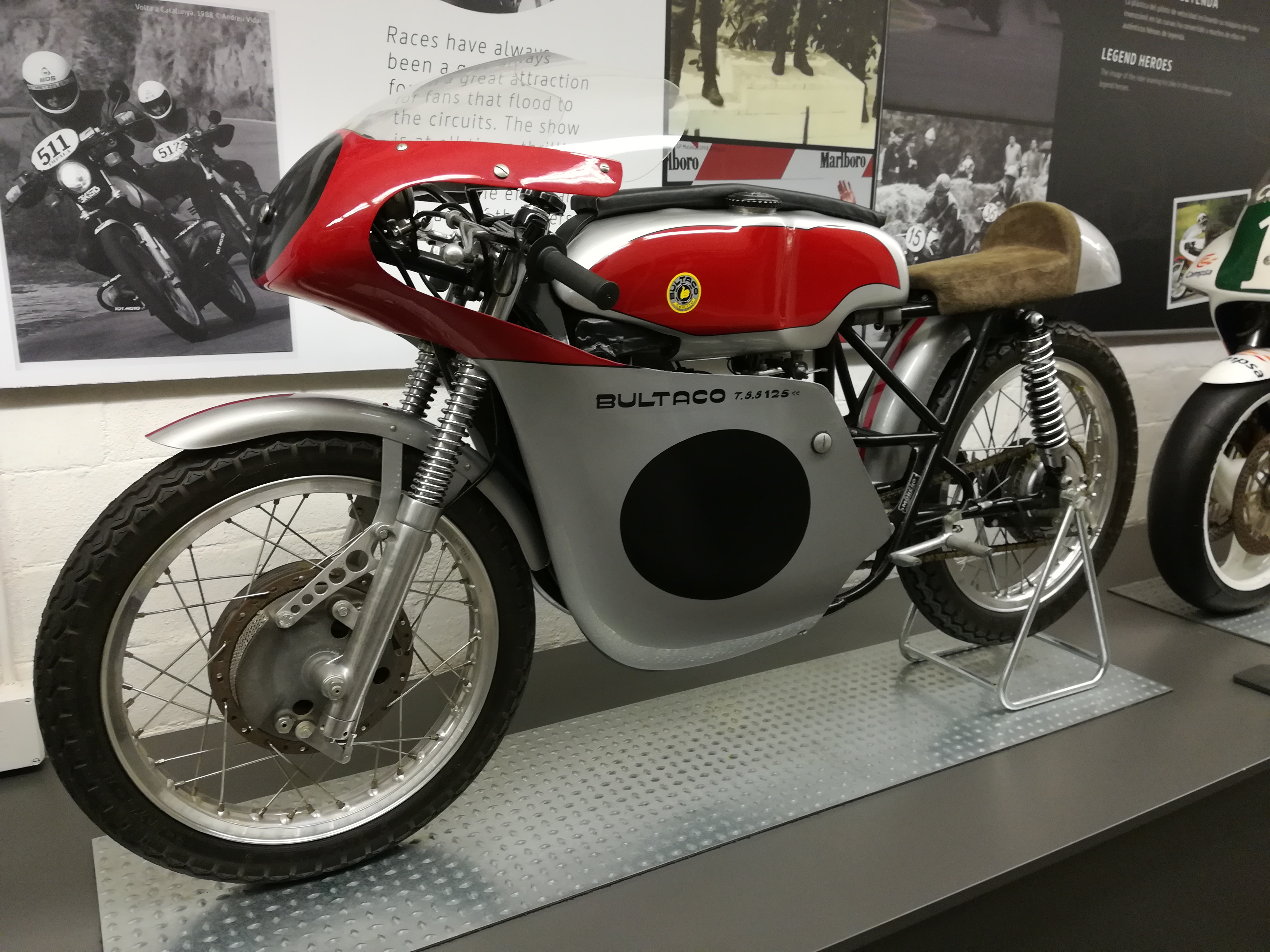 Bultaco TSS 125 Liquid Cooled (1965)